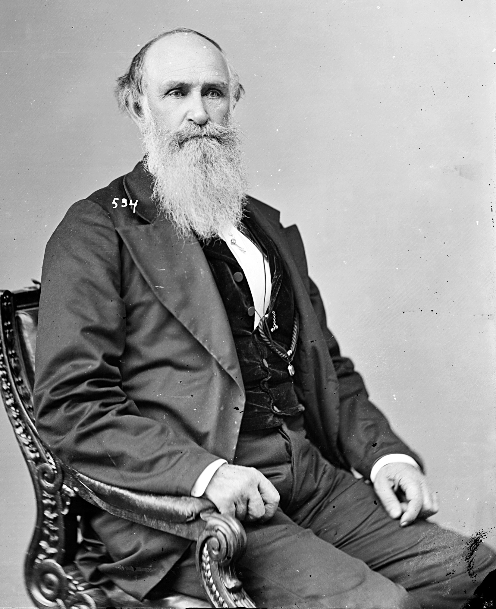 Rees Bowen, US Representative from Virginia